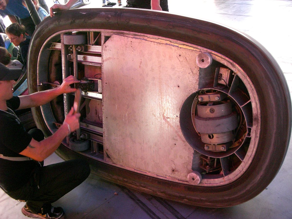 Underside of a bumper car